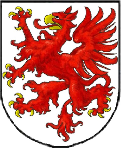 The coat of arms of Pomerania.